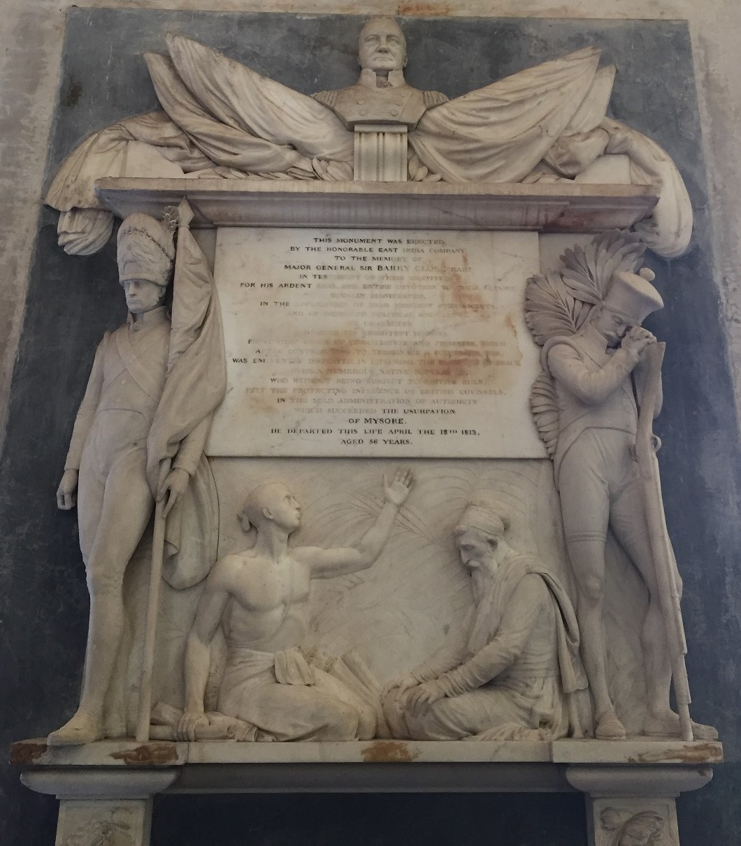 Memorial Sir. Barry Close, St. Mary's Cathedral, Madras